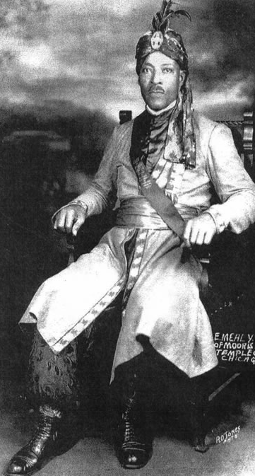 A photograph of Edward Mealy El, a Grand Sheik of the Moorish Science Temple, ca. 1928.